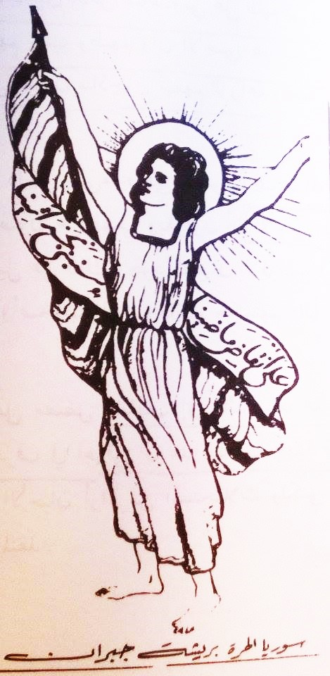 "On the ashes of our past, we will build our coming glory". "Free Syria" as drawn by Khalil Gebran